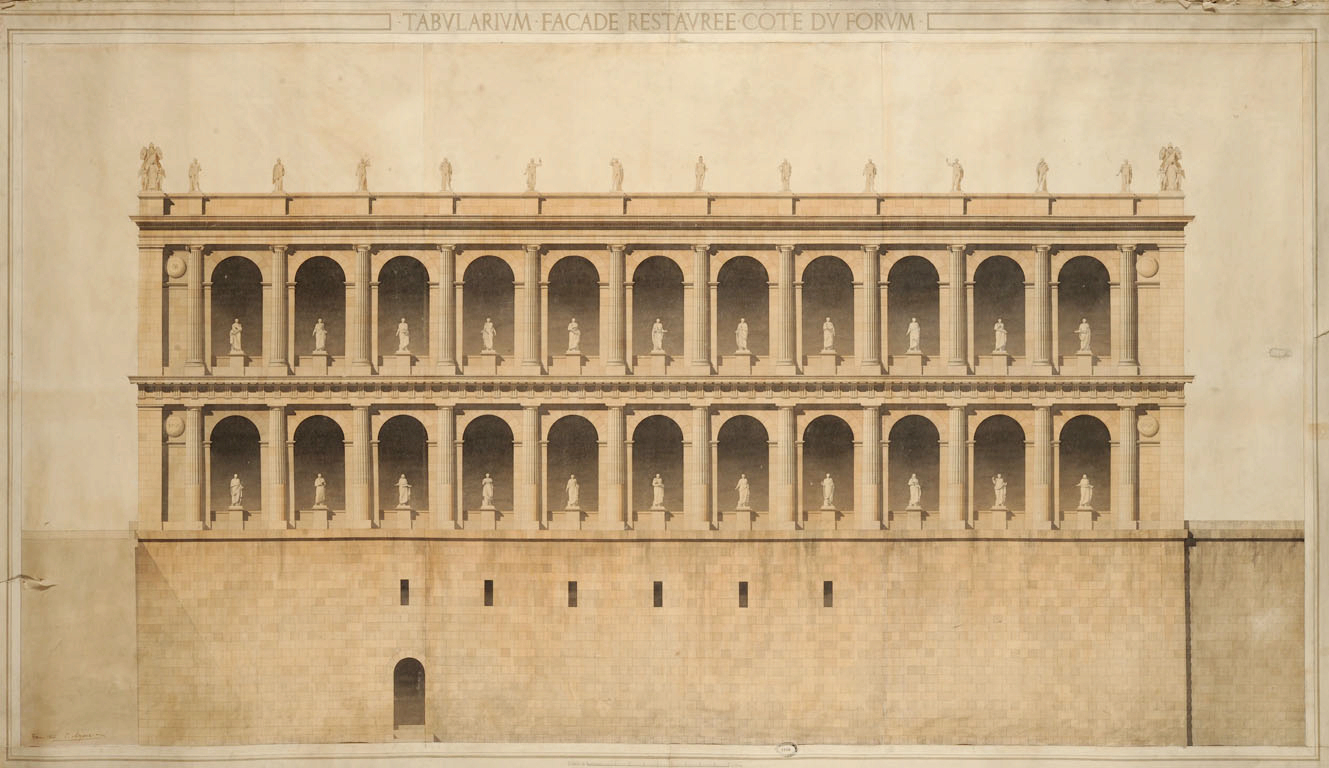 Watercolor reconstruction of the ancient roman Tabularium